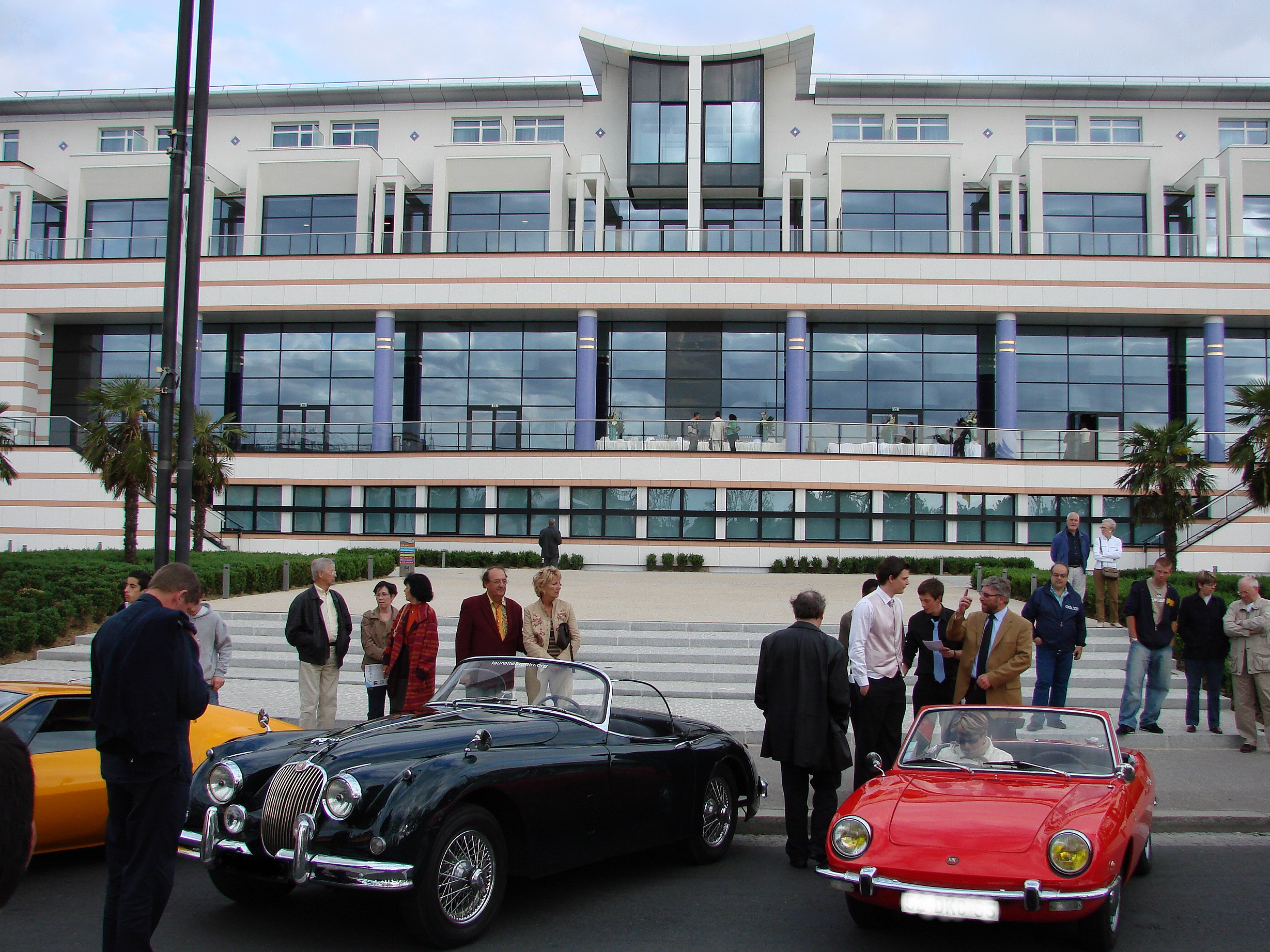 Oldtimer parade in front of the spa of Enghien-les-Bains, France